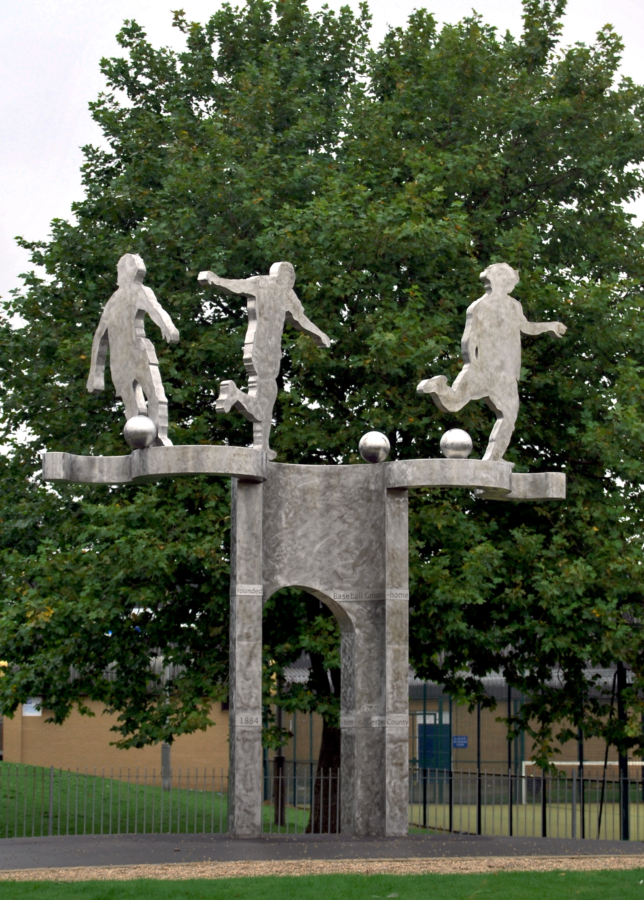 The commemorative work for, and at, the former Baseball Ground, previously home of Derby County Football Club.